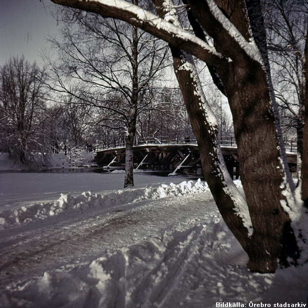 The bridge "Hagabron", Örebro, Sweden